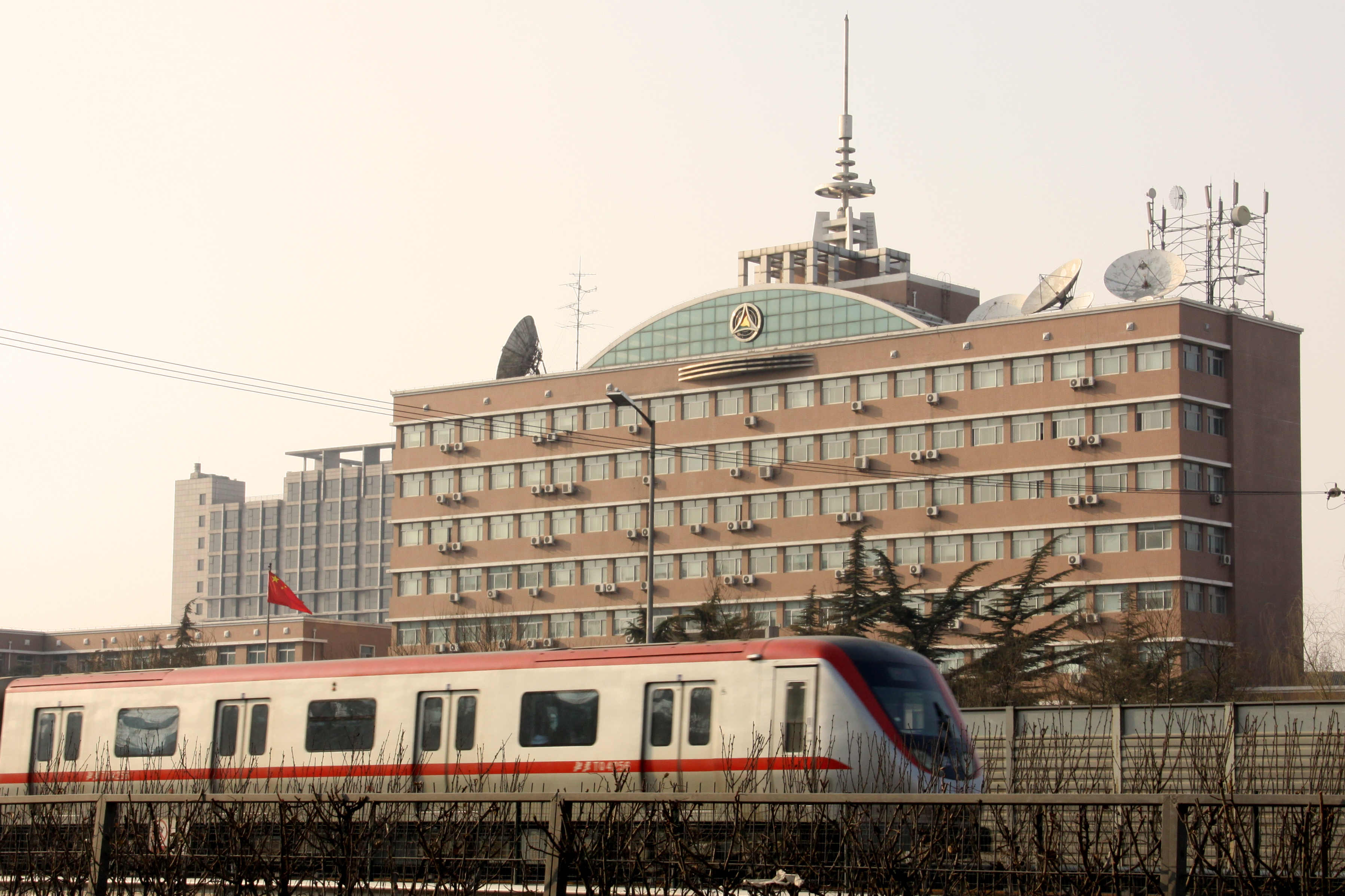 The main building of Communication University of China and the train on the Batong Line.